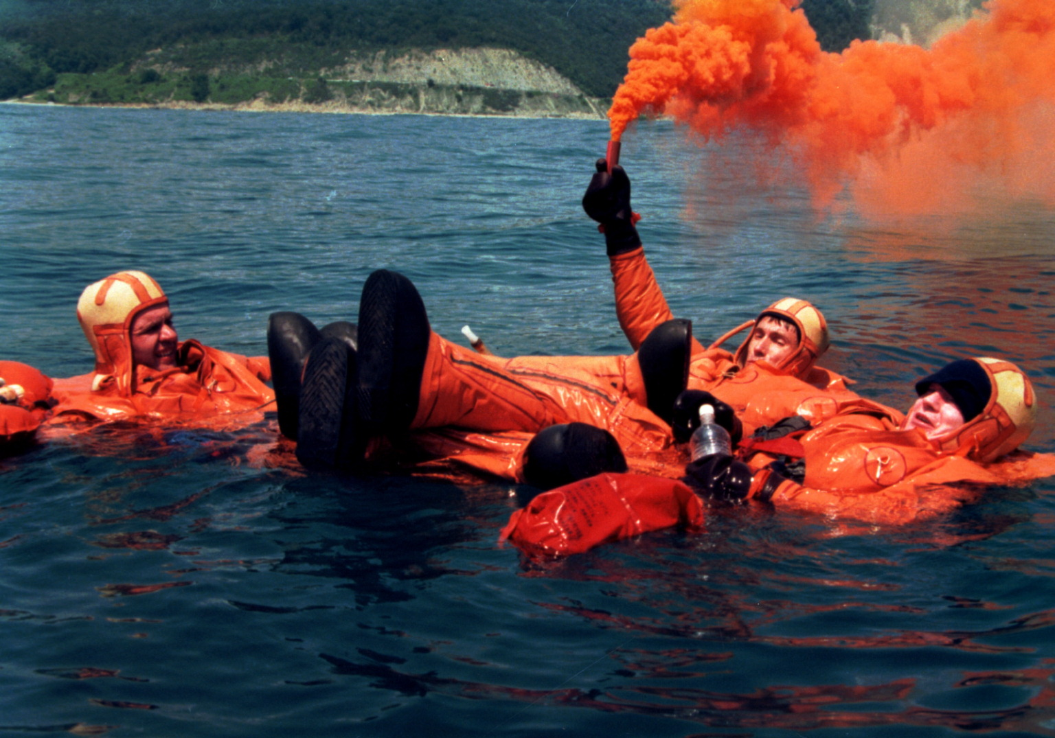 The first International Space Station crew, from left Soyuz Commander Yuri Gidzenko, Flight Engineer Sergei Krikalev and International Space Station Commander Bill Shepherd, practice water survival skills in the Black Sea recently. The skills would be needed in the event a Soyuz spacecraft landed in the water rather than on land as is normal. The crew is scheduled to launch to the new station in January 1999 aboard a Russian Soyuz spacecraft.